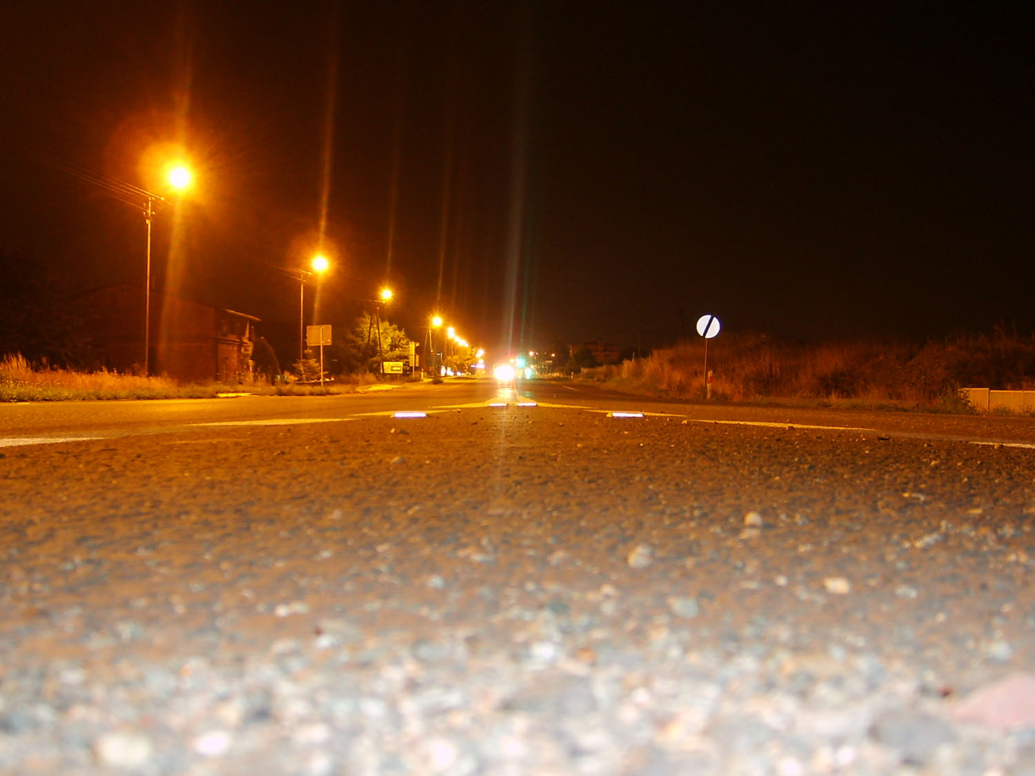 A photo of DK 44 in Paniówki (Poland), taken at night.